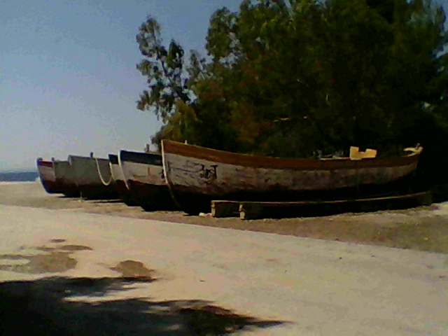 Hoys deactivated, standing onshore, used in the past for carrying raw magnesite to the bulkers in Yerakini harbour, Chalkidiki, Greece